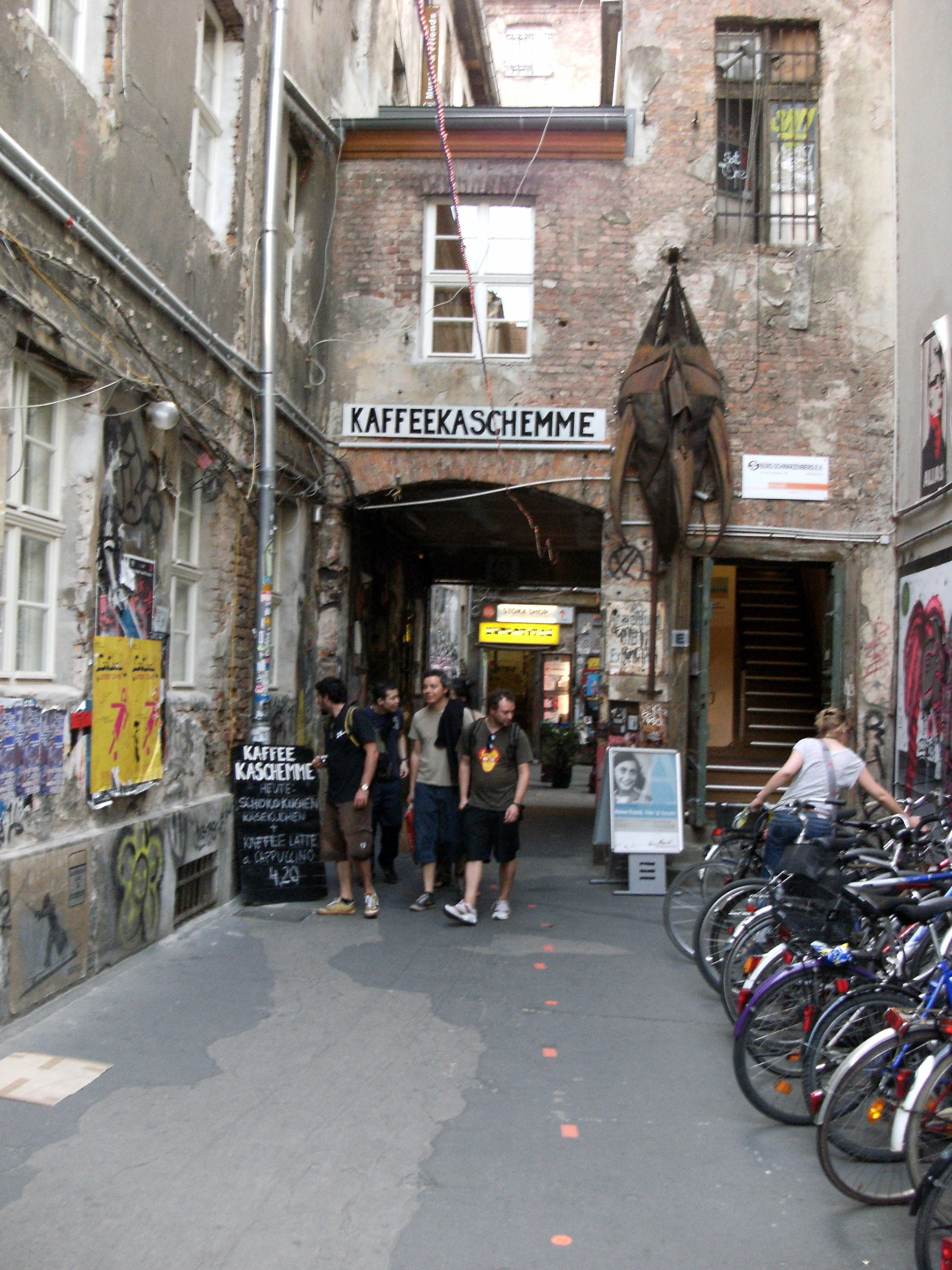 Berlin in june 2008.